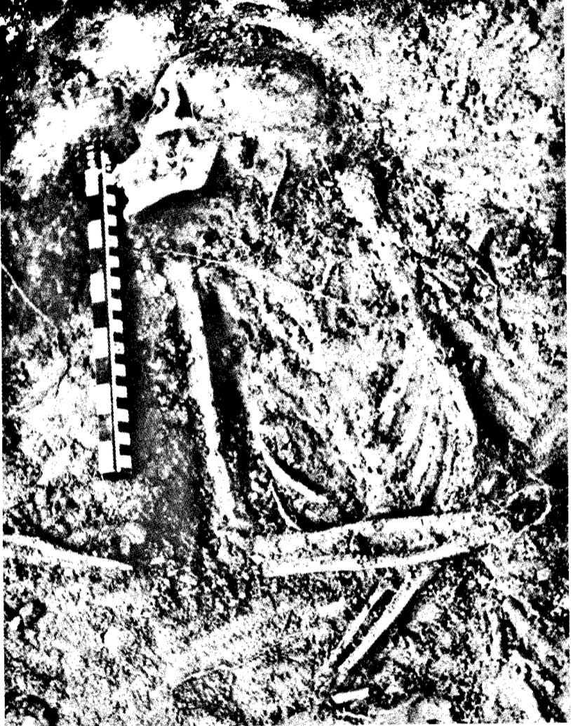 Anaikoddai early iron age chieftain